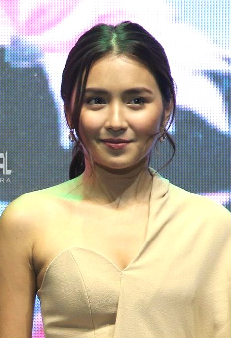 A photo of Kathryn Bernardo attending the Celebrate Mega event in Iceland last 2016.